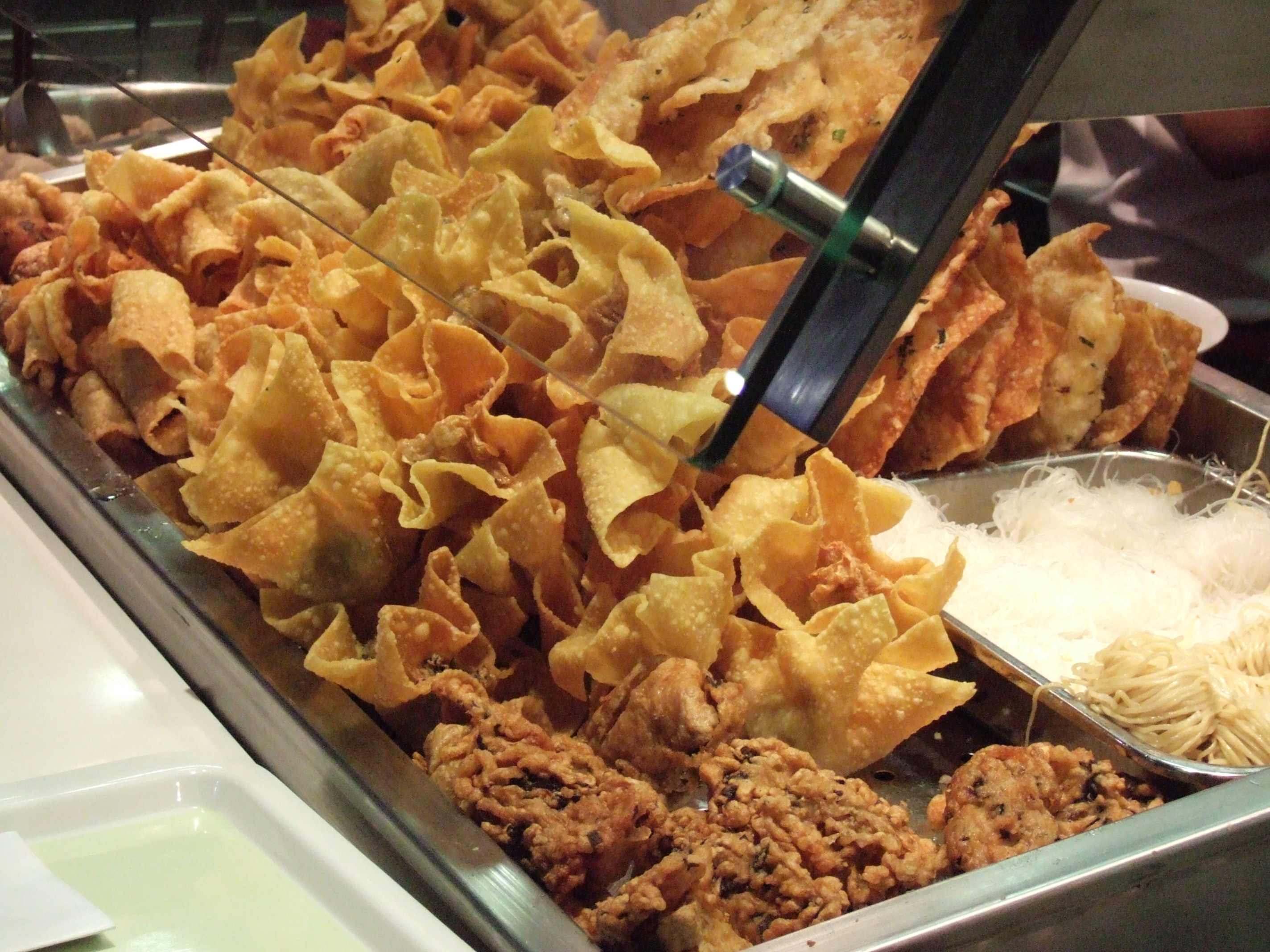 Fried wonton, Jakarta, Indonesia